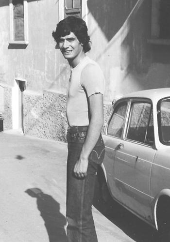 Italian comic artist Andrea Pazienza in 1974, photographed by his friend Vanni Natola.